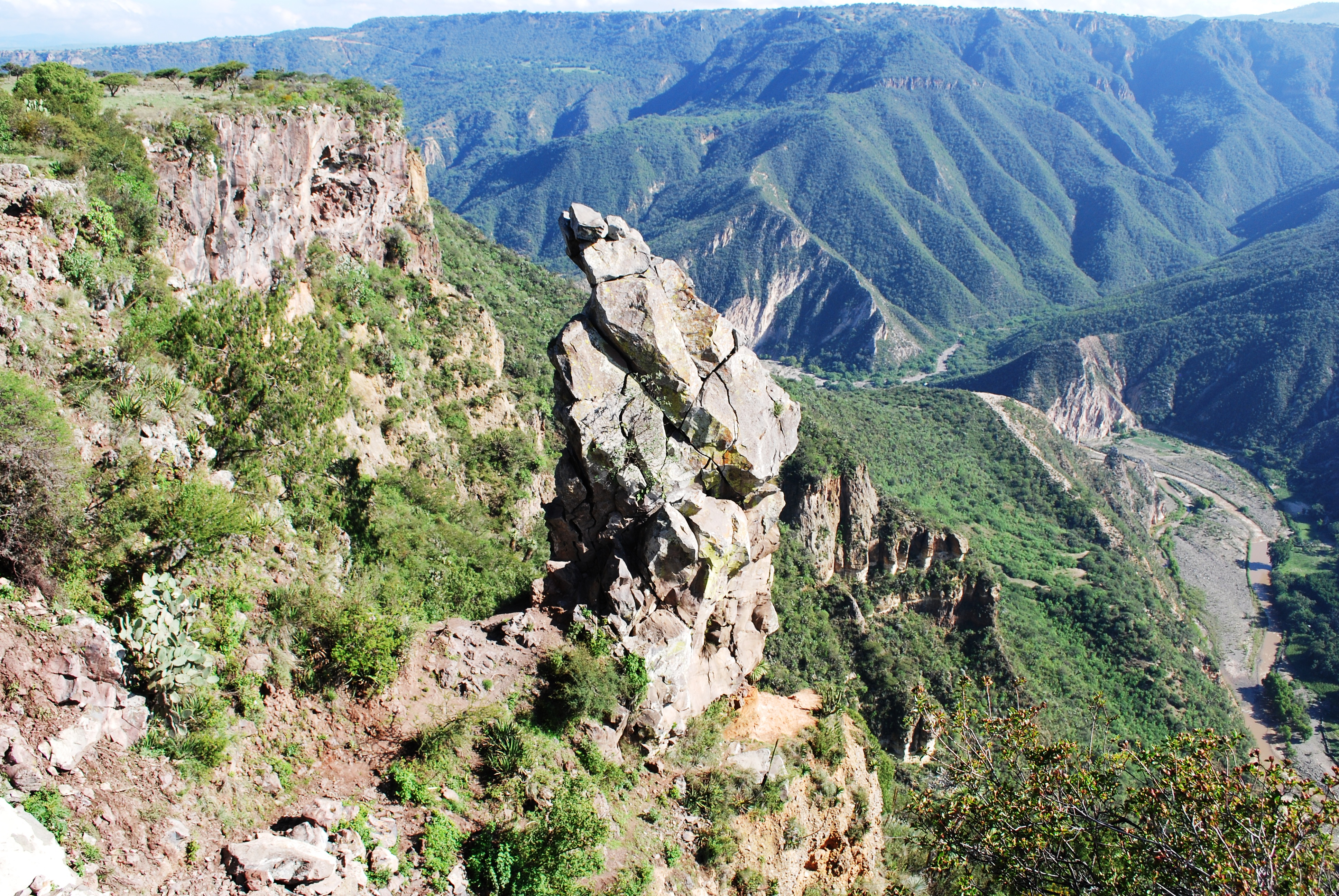 View of the Peña del Aire in Huasca del Ocampo, Hidalgo, Mexico